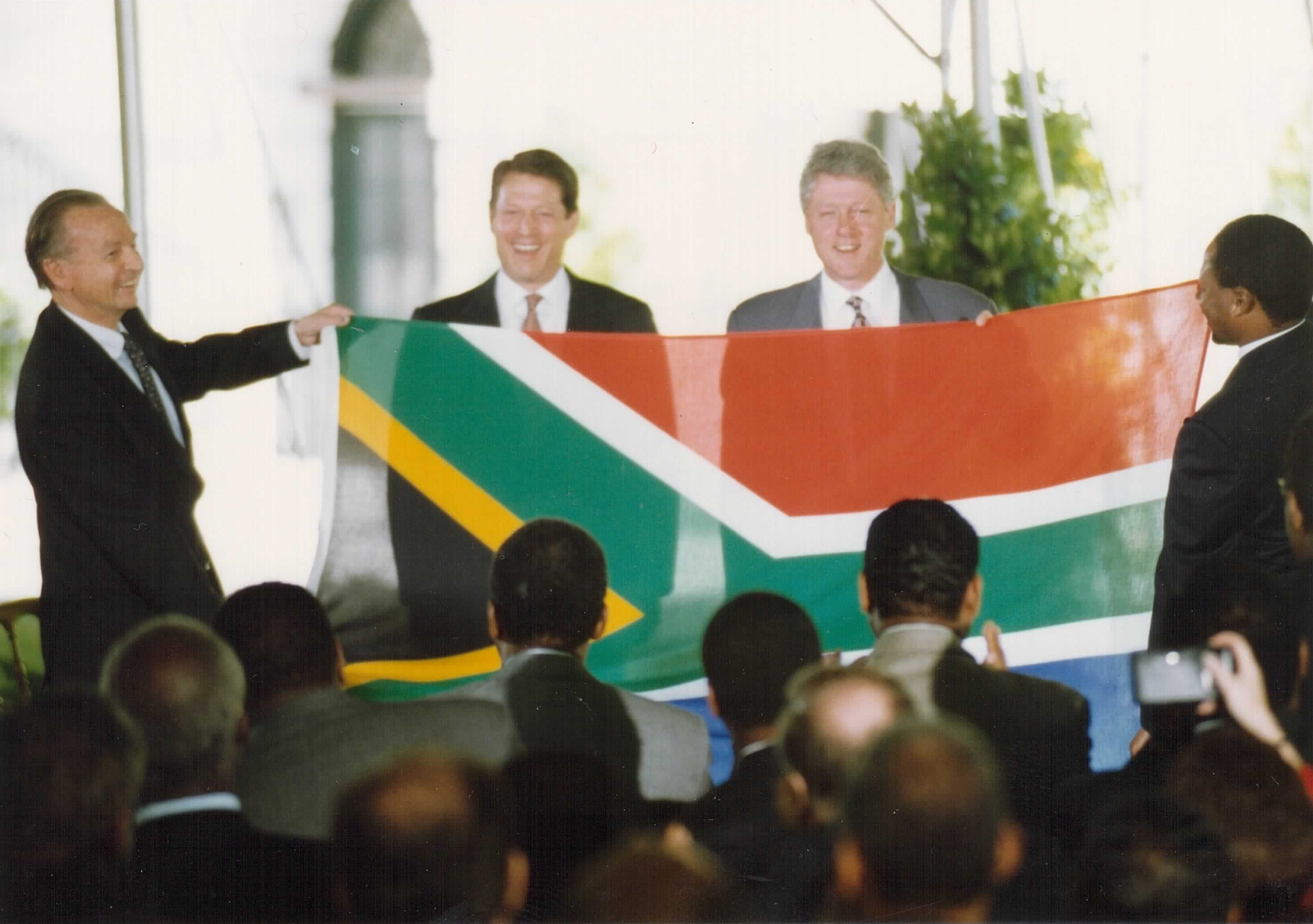 The new post-apartheid South African flag being unveiled to the United States by Ambassador Harry Schwarz to US President Bill Clinton and Vice-President Al Gore. 6 May 1994 at the State Department.